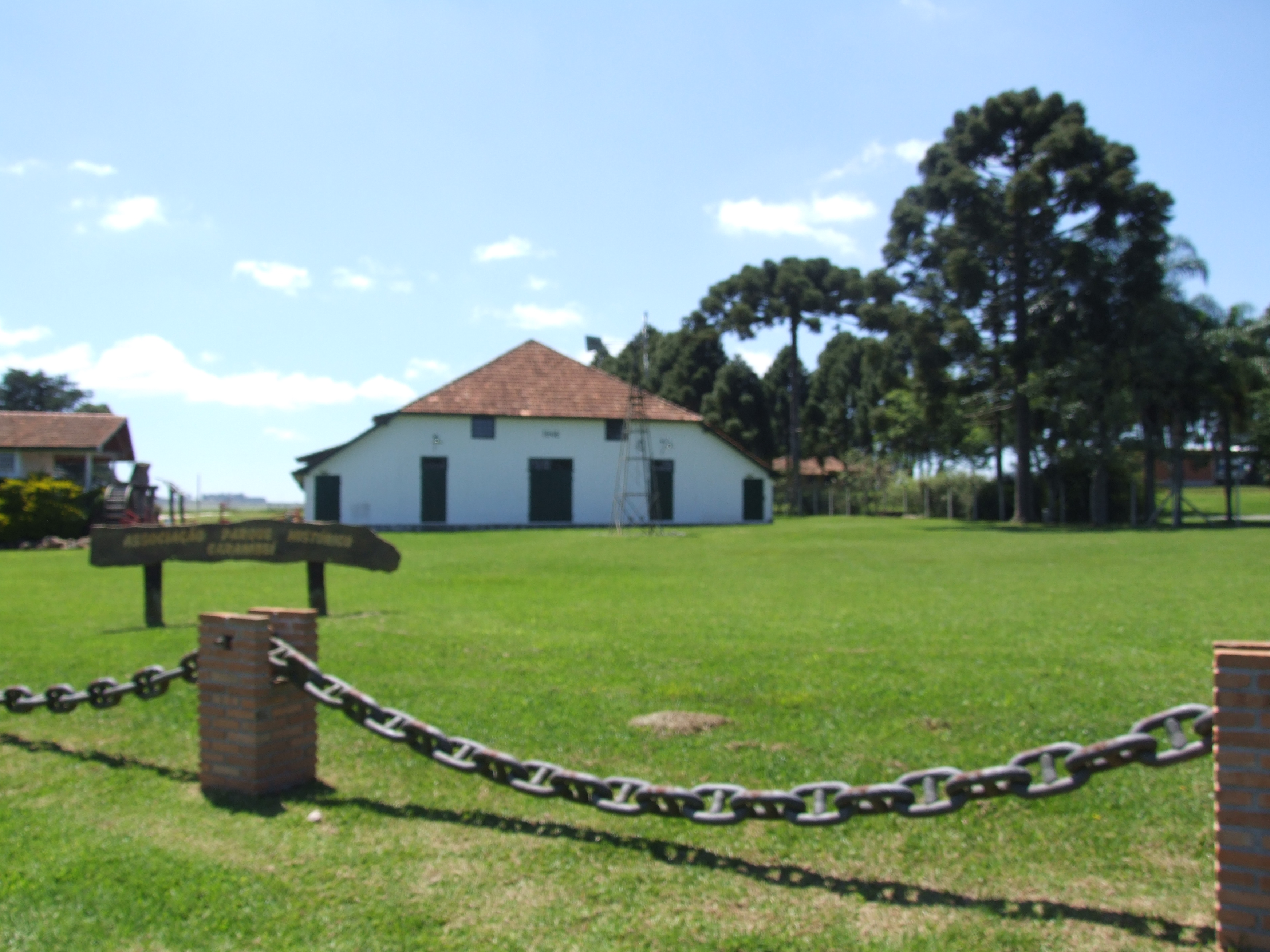 Dutch architecture in Carambeí, Paraná, Brazil.